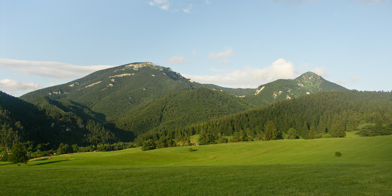 Ostrá and Tlstá Mountains in the Greater Fatra Range in Slovakia, as seen from above the village of Blatnica